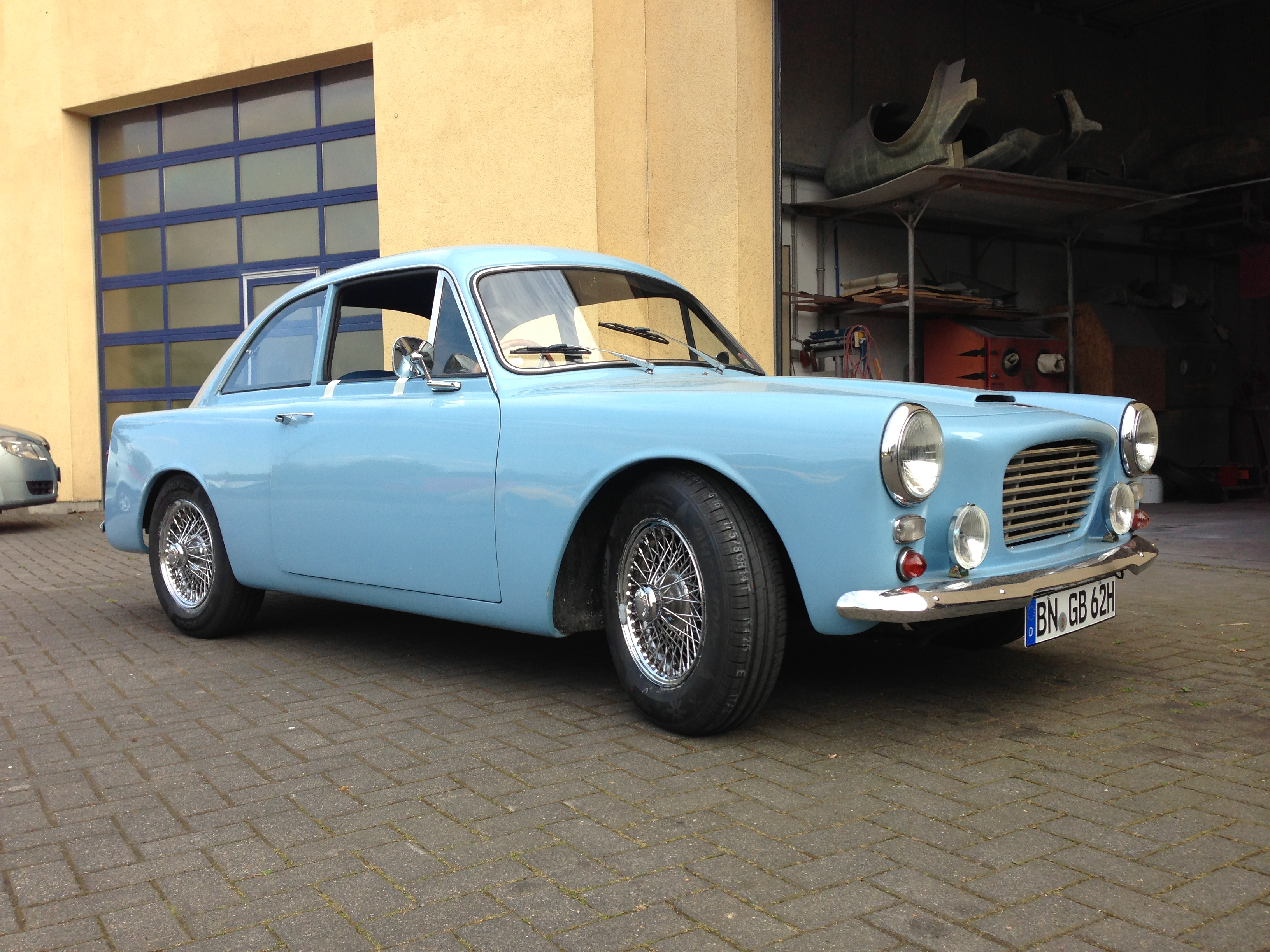 First and only Gilbern GT in Germany